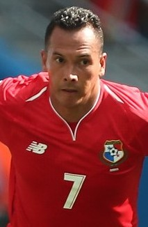 Blas Pérez, Ruben Loftus-Cheek